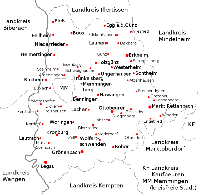 the former district of Memmingen with all municipalities – map